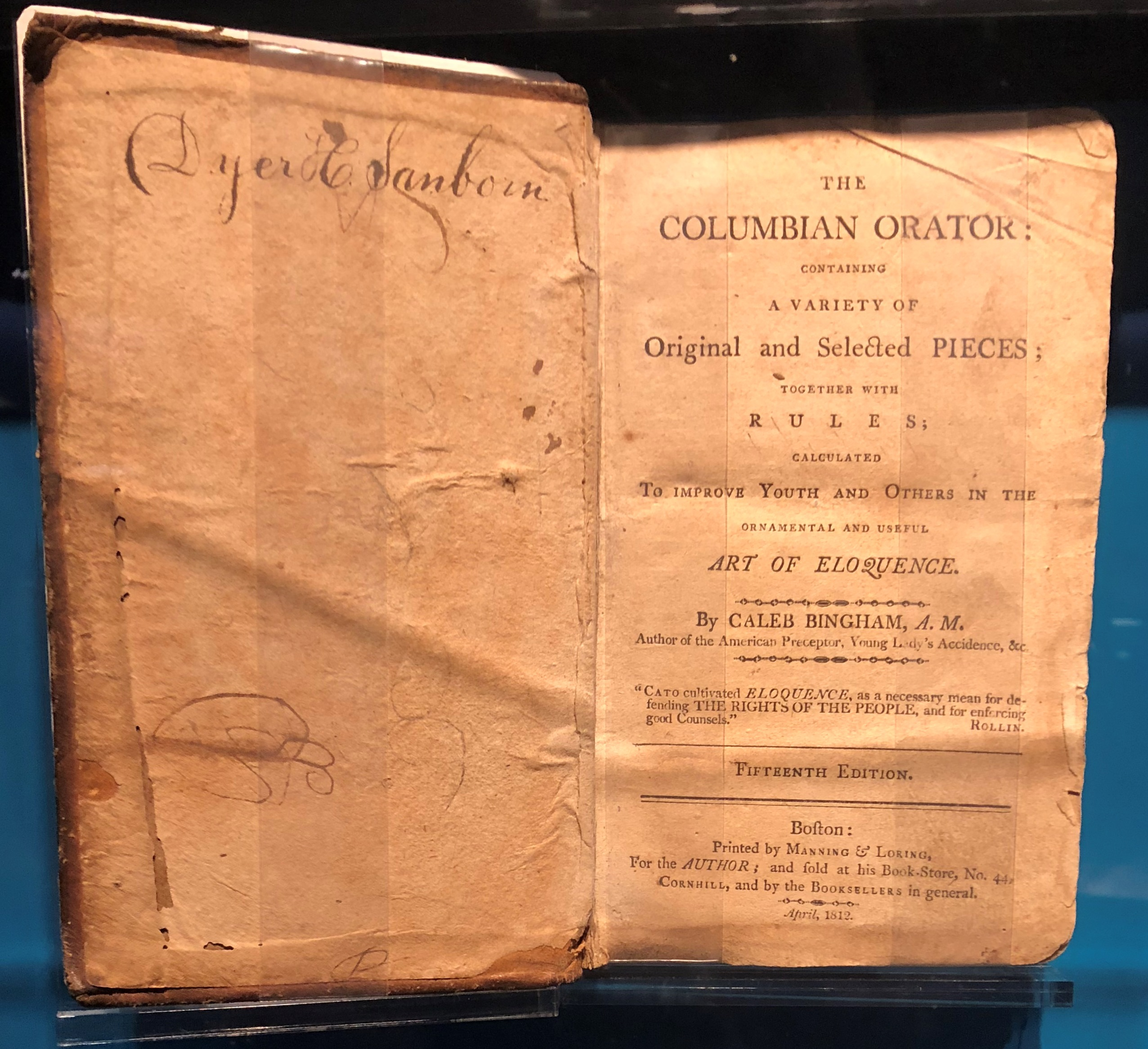 Caleb Bingham's "Columbian Orator", a compilation of speeches published in Bostin in 1797, here in an 1812 edition owned by abolitionist Frederick Douglas. National Civil Rights Museum, Memphis, Tennessee.